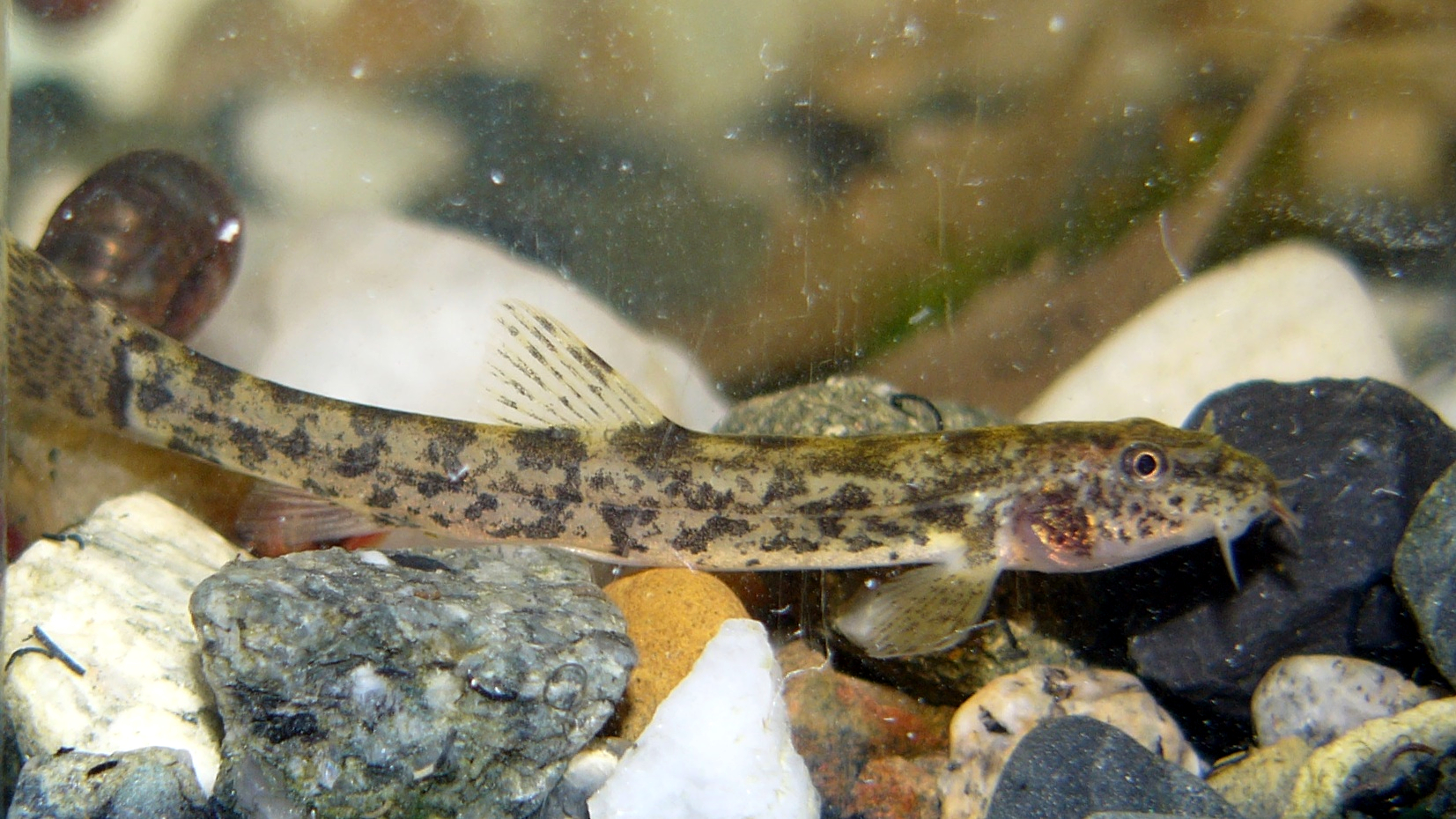 Barbatula barbatula from the Czech Republic. Photo taken in aquarium.